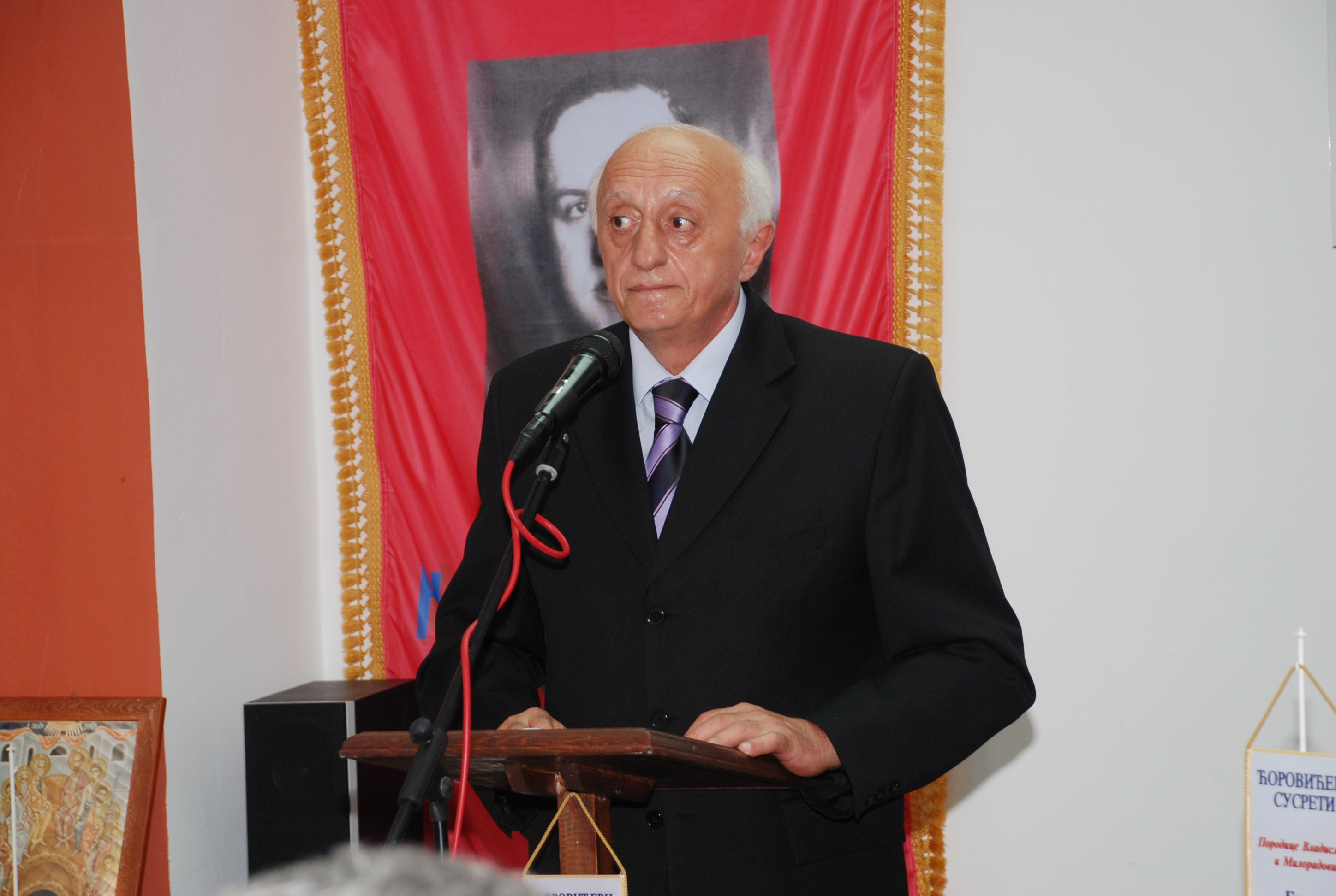 Prof. Milovan at the awards ceremony, "Vladimir Corovic"